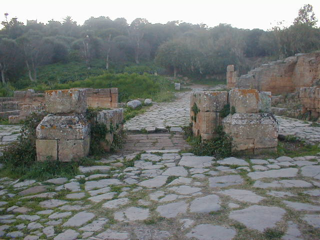 Sstreet entering the ancient roman city of Cellah, Rabat, Morocco. Walon: voye rominne a l' intrêye des rwenes di Chellah, viye veye rominne dilé Rabat, å Marok (portrait saetchî pa L. Mahin).